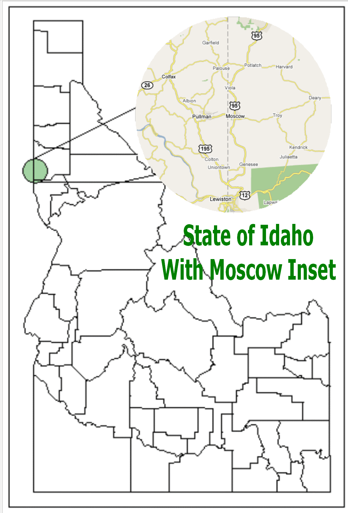 Map of Idaho with Moscow highlighted Created 2007-03-25